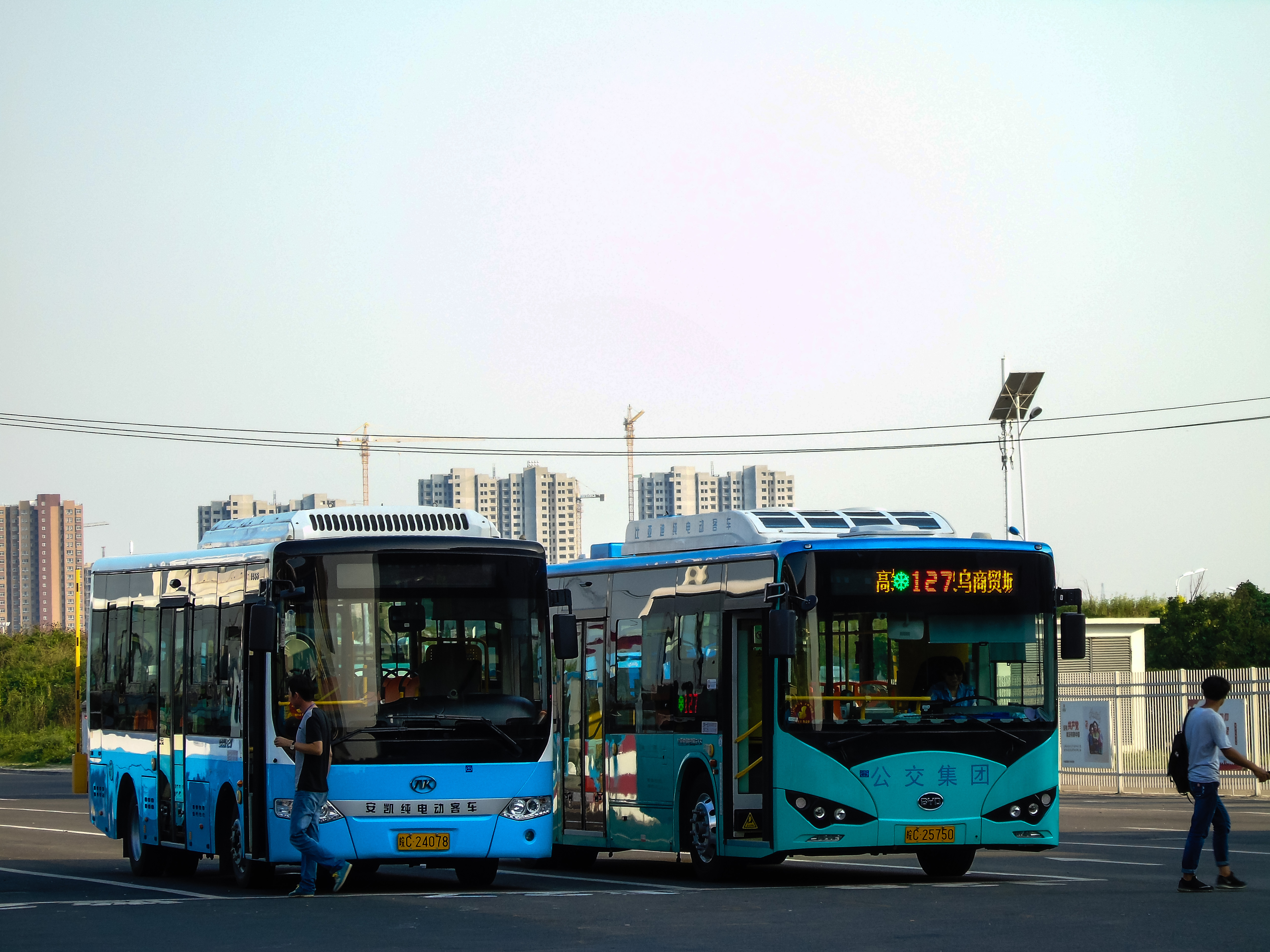 Bengbu Bus No.127 and Micro No.3 at Bengbunan Railway Station